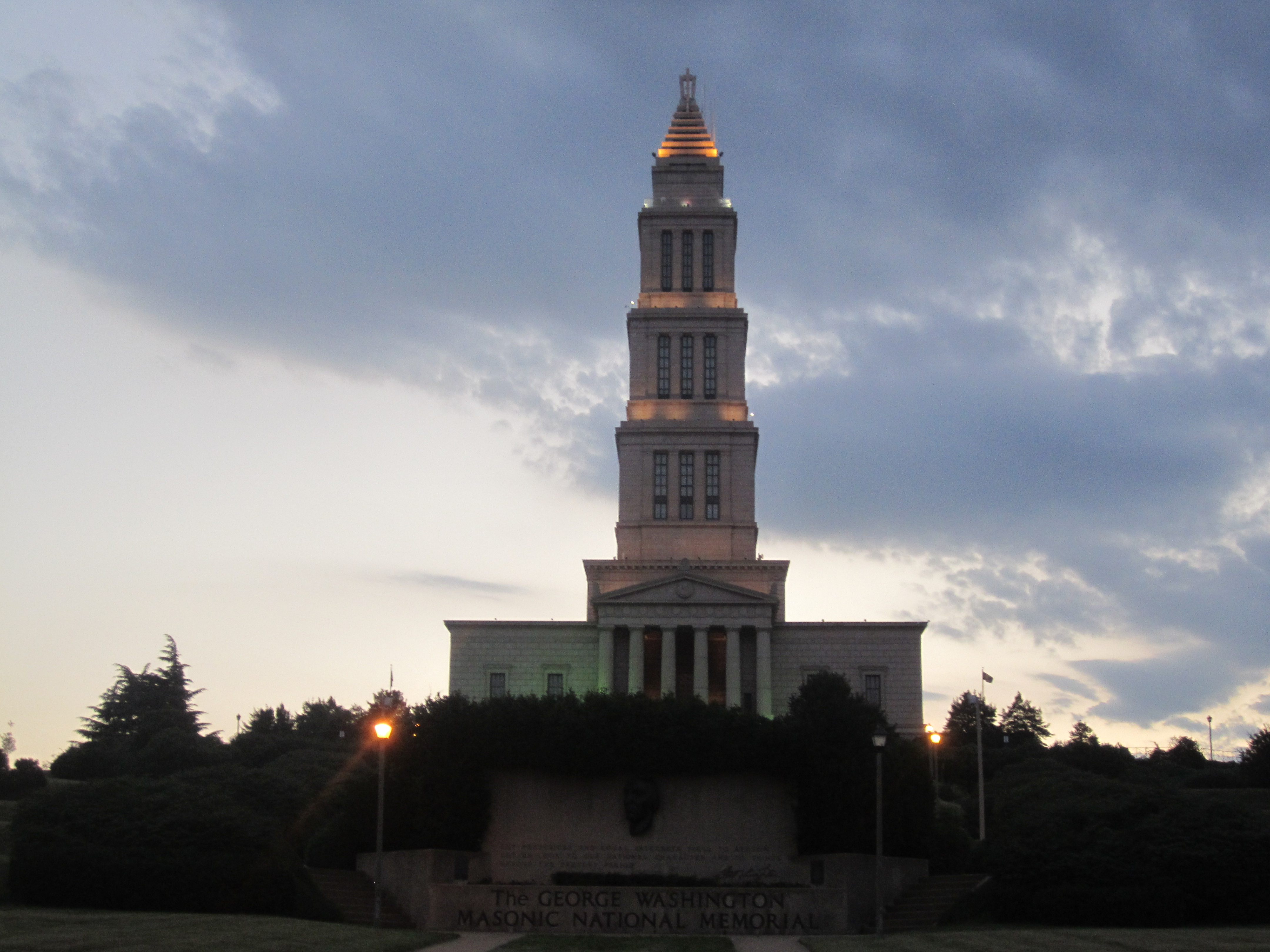 I took photo of George Washington National Masonic Meorial in Alexandria, VA, with Canon camera.